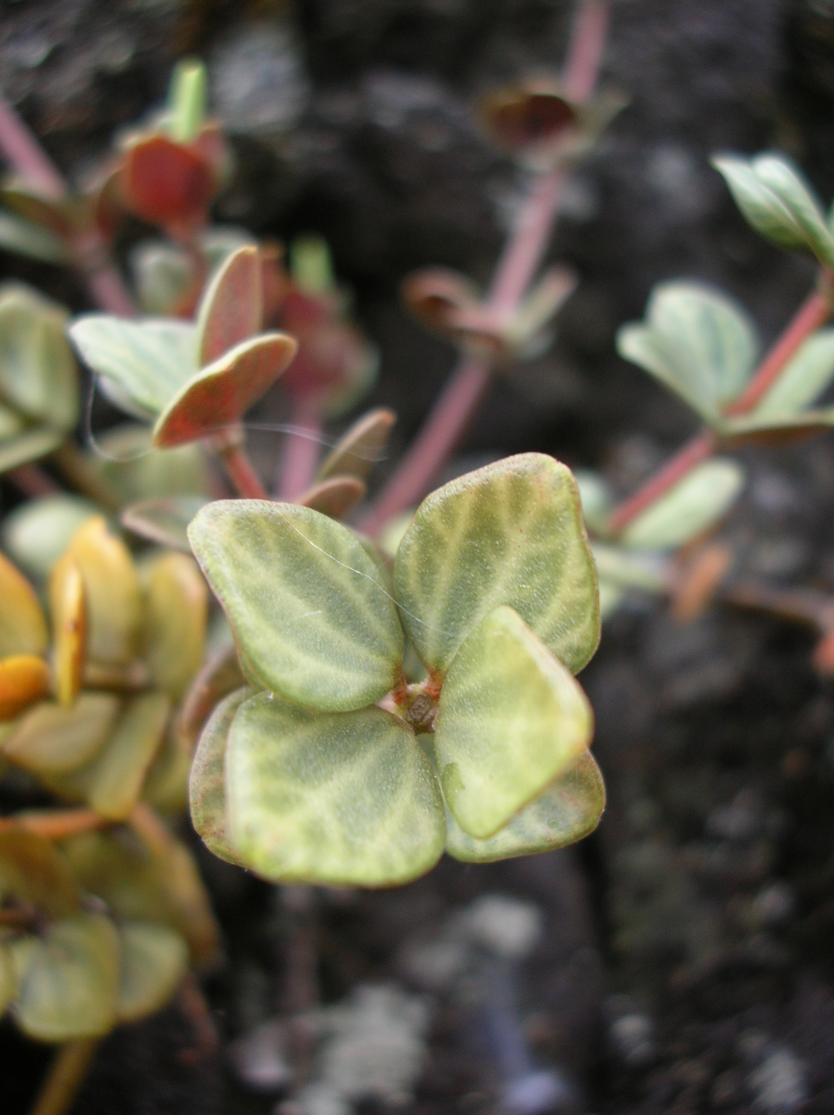 Peperomia tetraphylla (leaves). Location: Maui, Auwahi